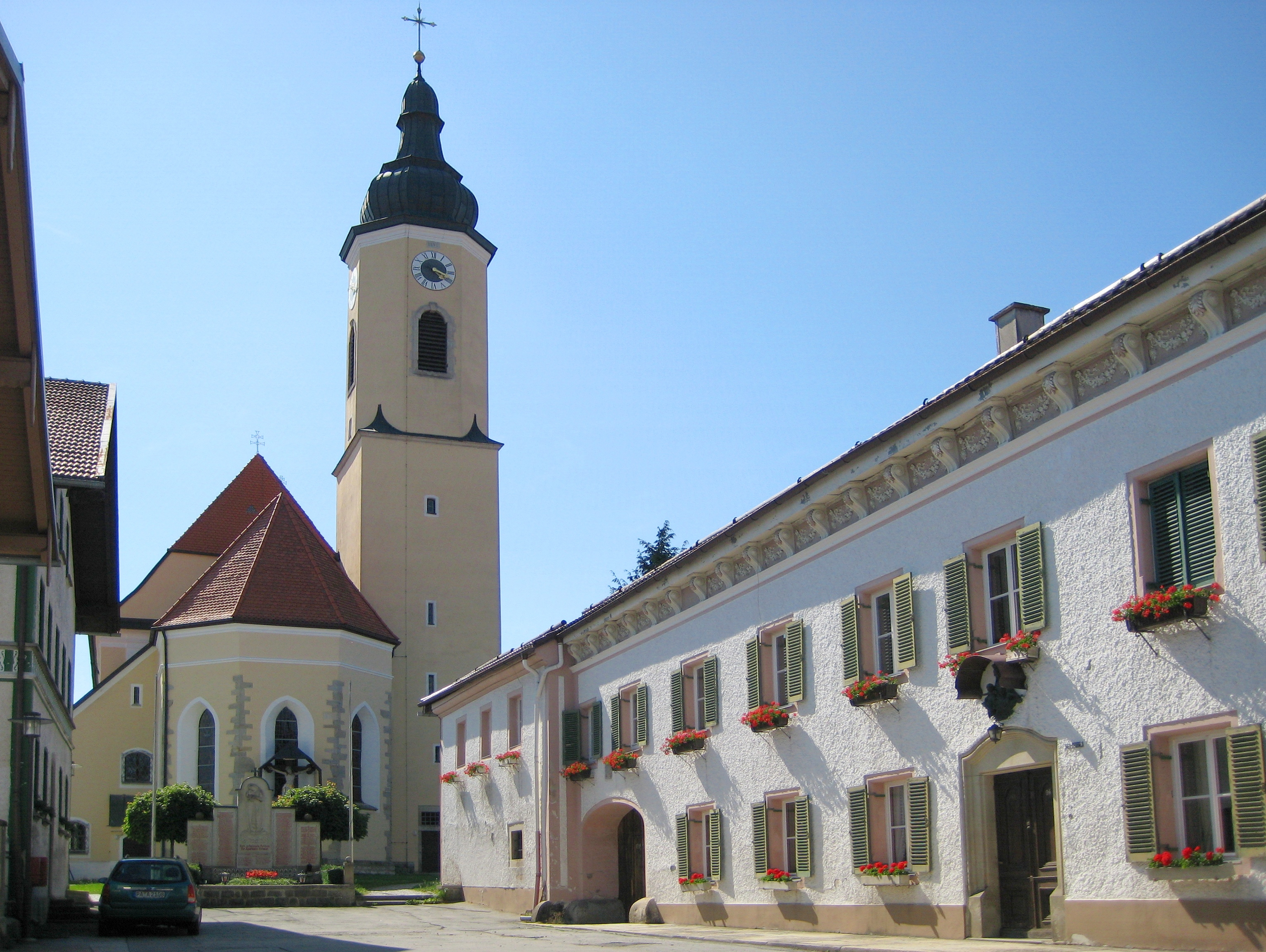 Straßkirchen (Salzweg), St Giles Parish Church from east with former episcopal estate on right.